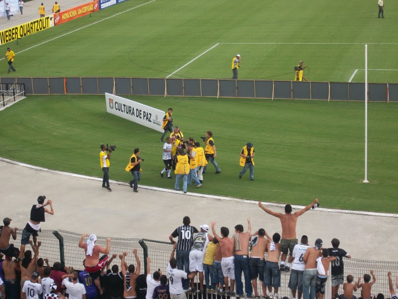 Player of soccer Marcelinho Carioca